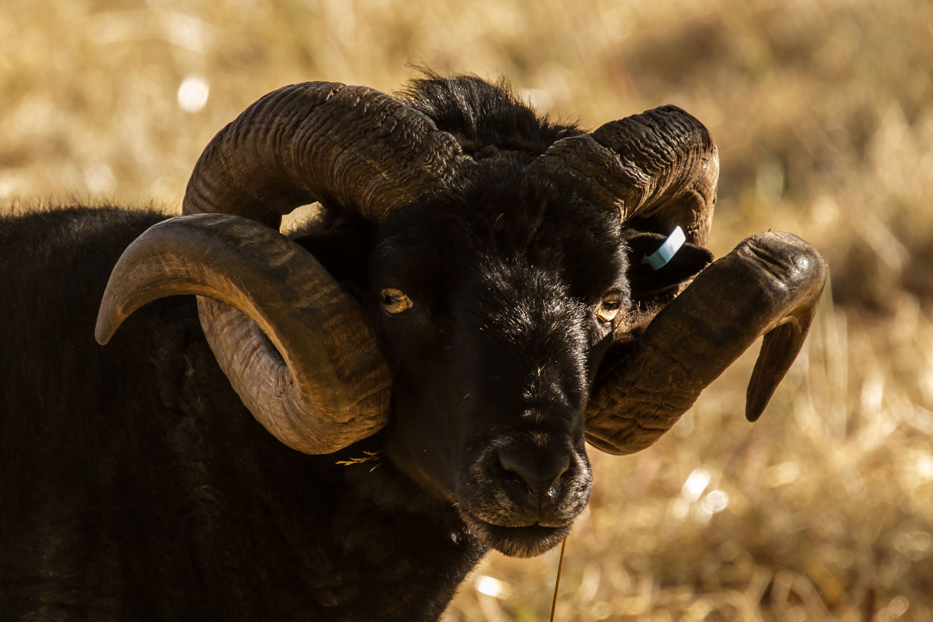 A black hebridian sheep front horns